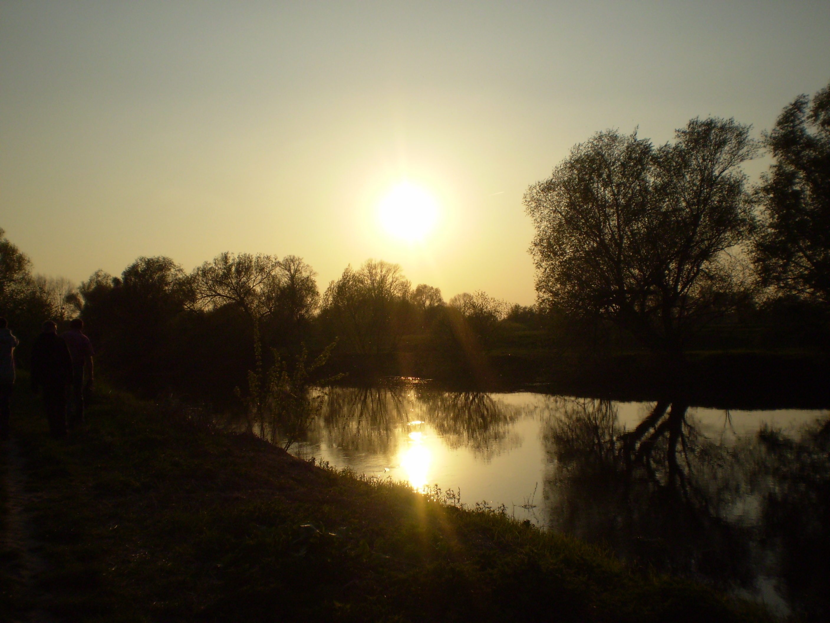 Złotoria, Poland, Toruń county, Drwęca.